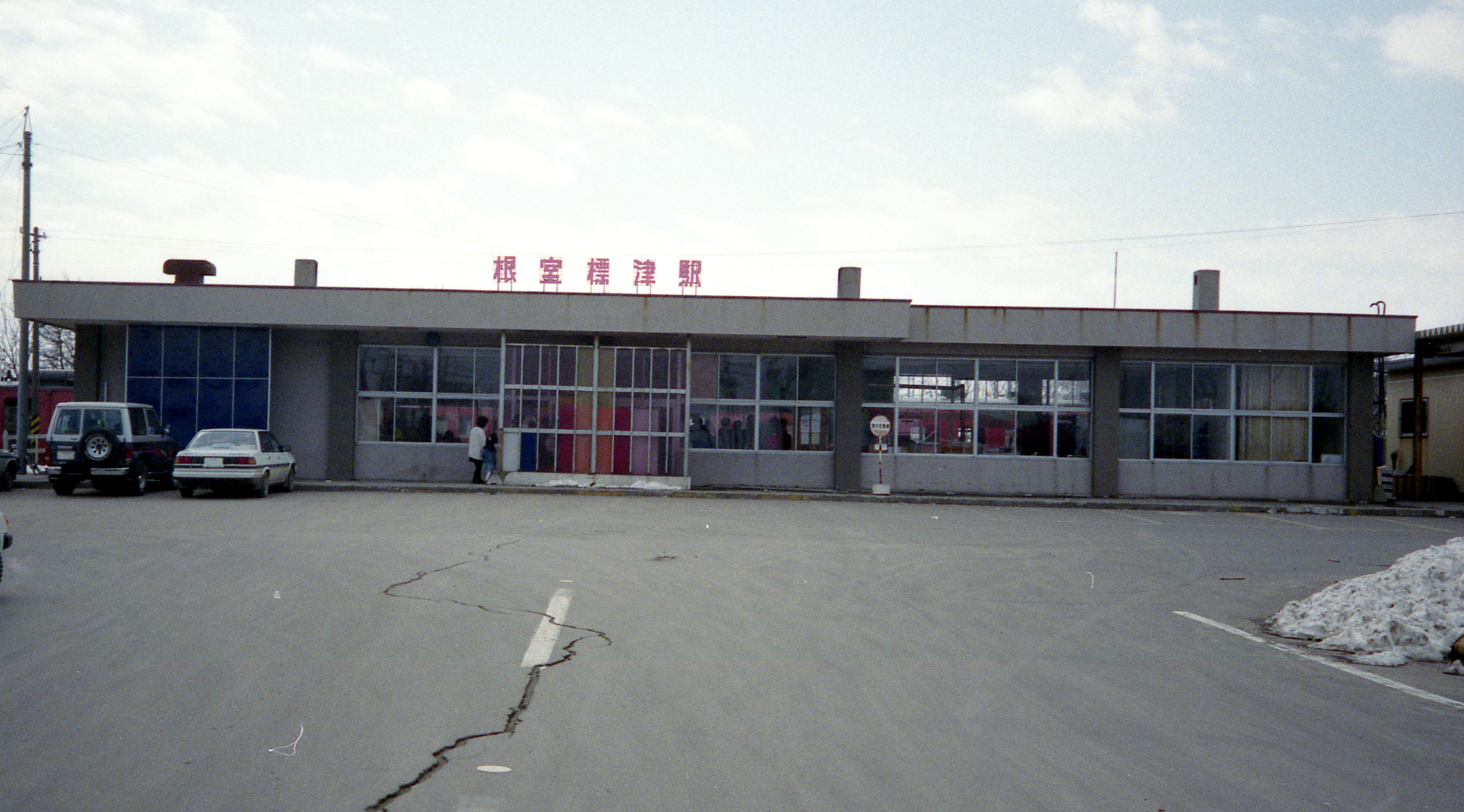 The building of Nemuroshibetsu Station,Hokkaido Railway Company Shibetsu Line(before abolished)